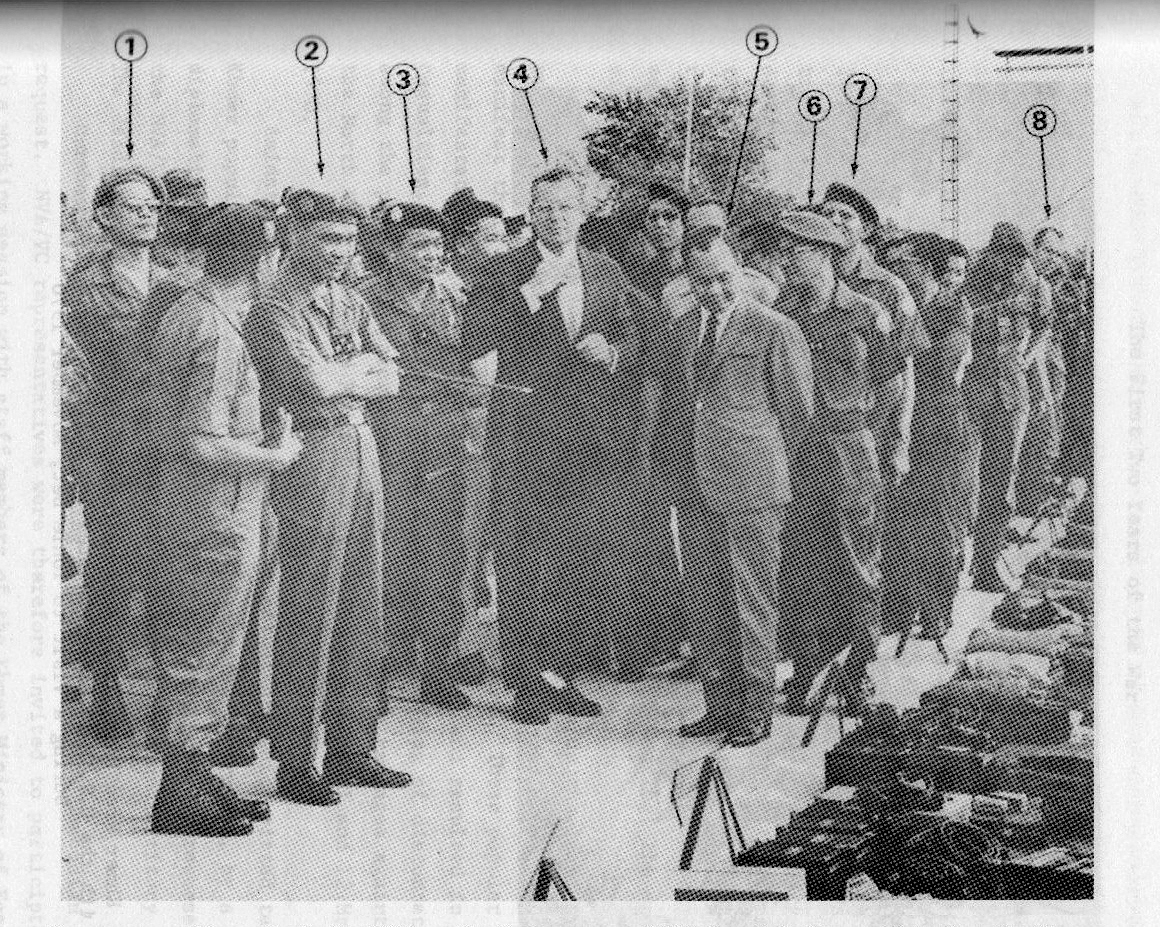 Cropped from File:CamGen.jpg by User:Sundgauvien38.(For non English wiki); From LT. Gen. Sak Satsukhan, The Khmer Republic at War and the Final Collapse. Washington DC: US Army Center of Military History, 1984.